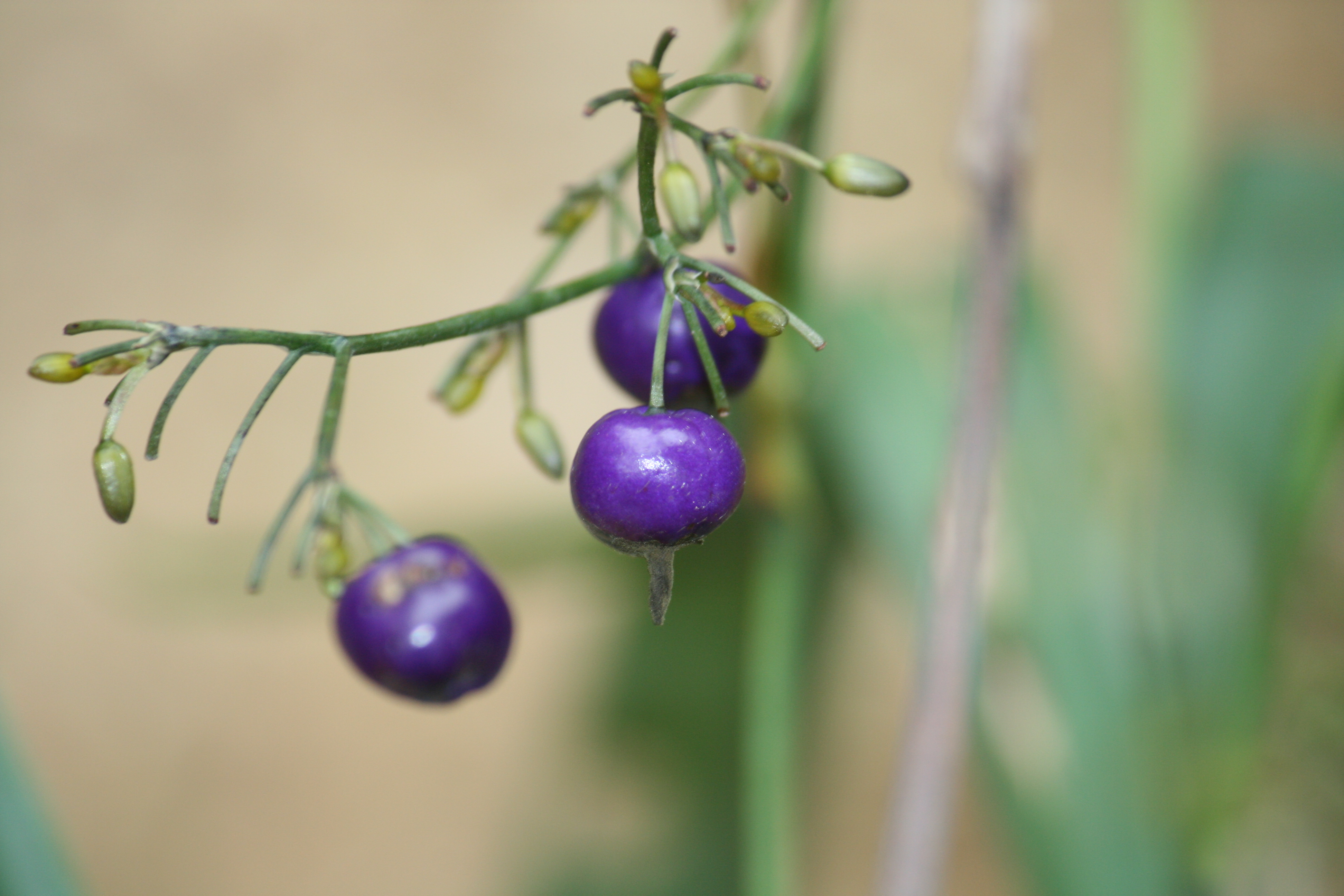 Fruit of Dianella ensifolia